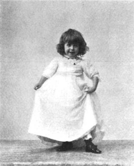 Photograph of child actress Little Tuesday circa 1890, published in Everybody's Magazine (September 1903).